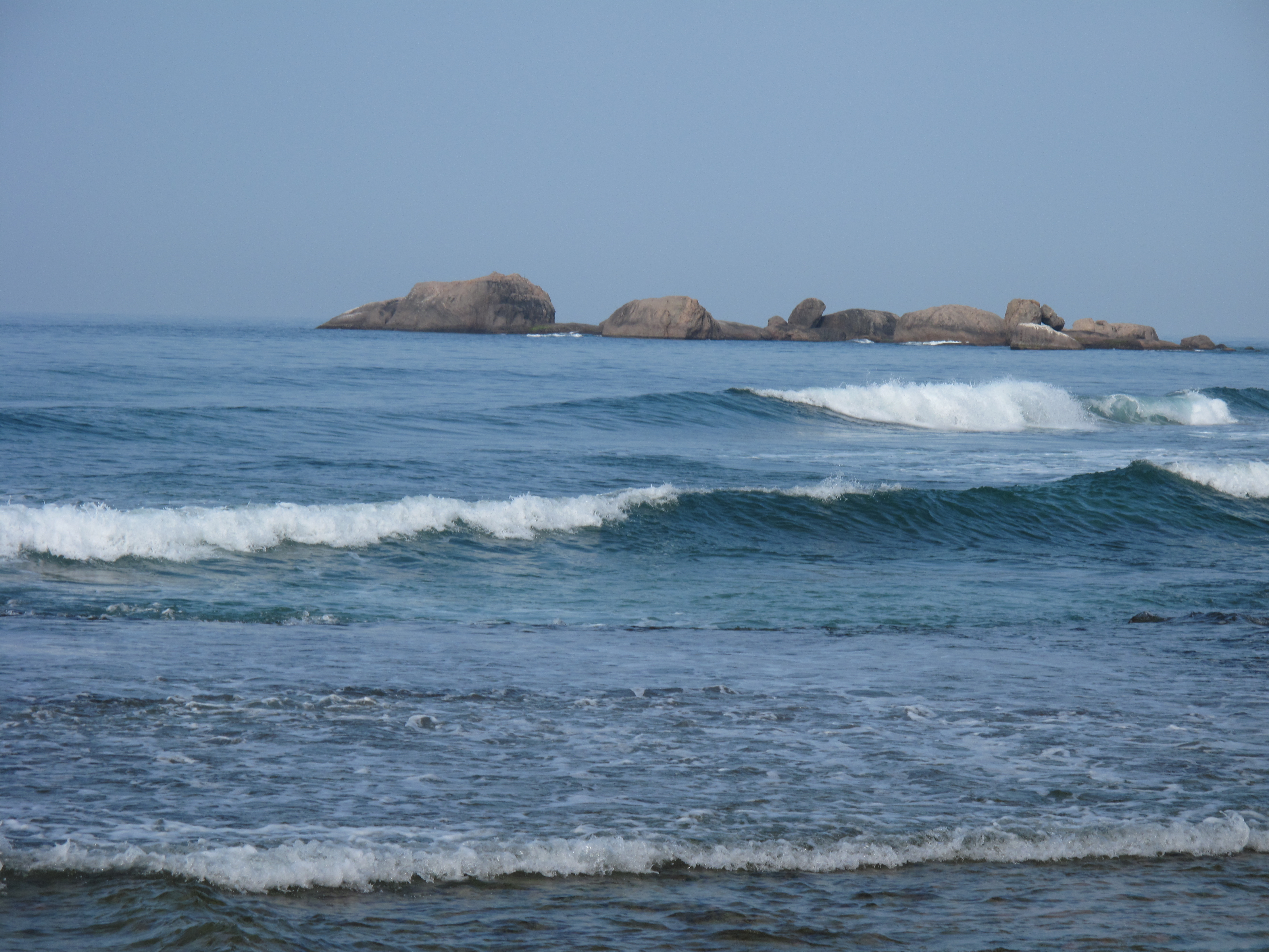 Sea with rocks on the coast of Hikkaduwa, Sri Lanka.